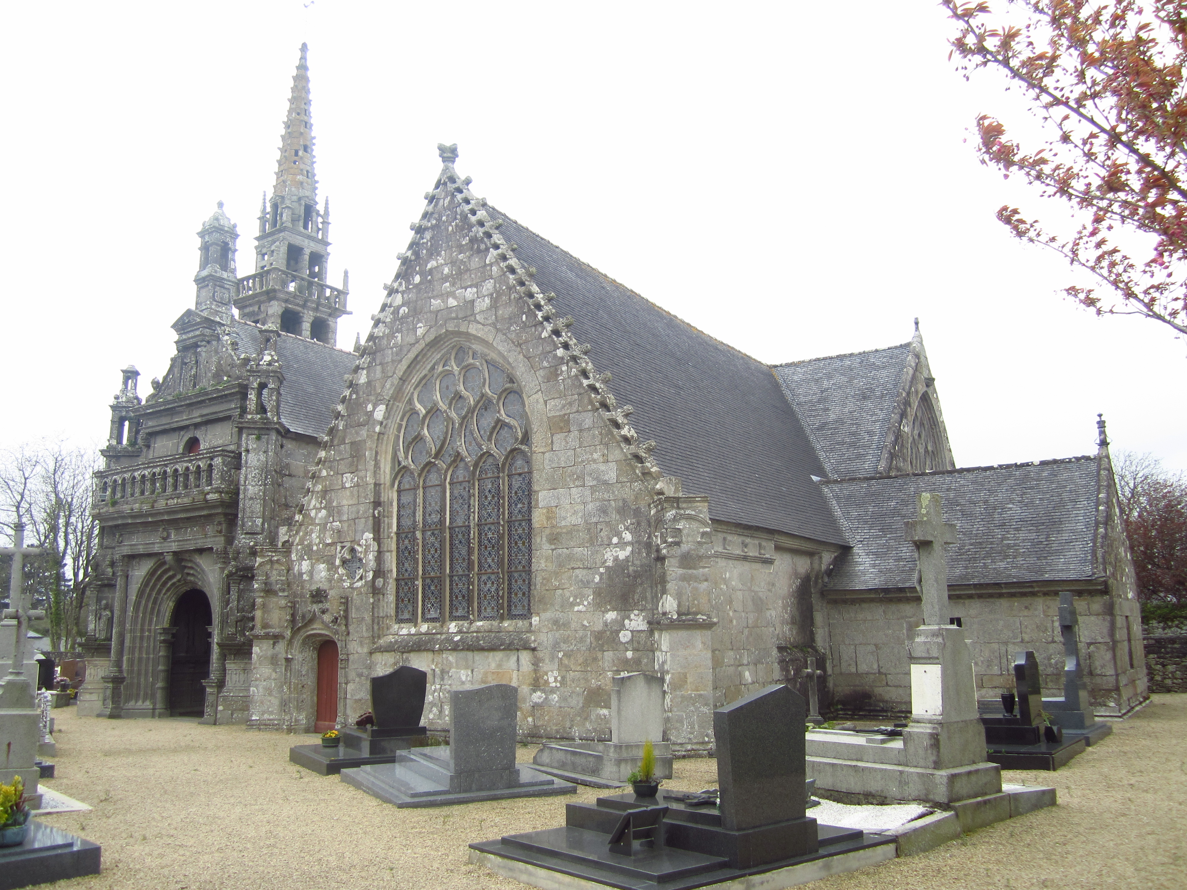 Church of Trémaouezan, Finistère